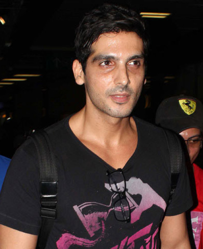 Zayed Khan at the airport en route to IIFA 2013 in Macau (5 July 2013)